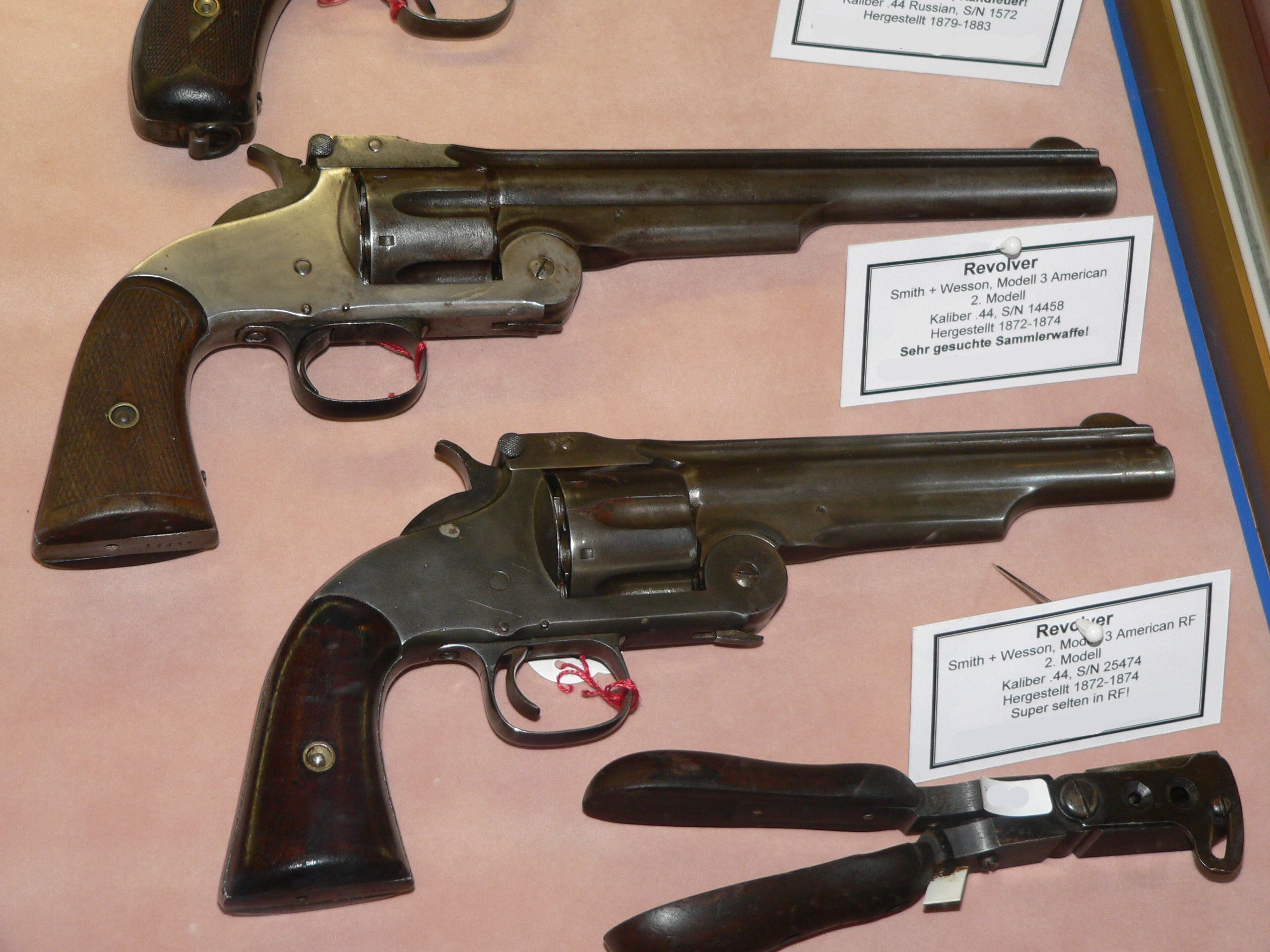 Two S&W No. 3, Second Model Revolver in .44 caliber